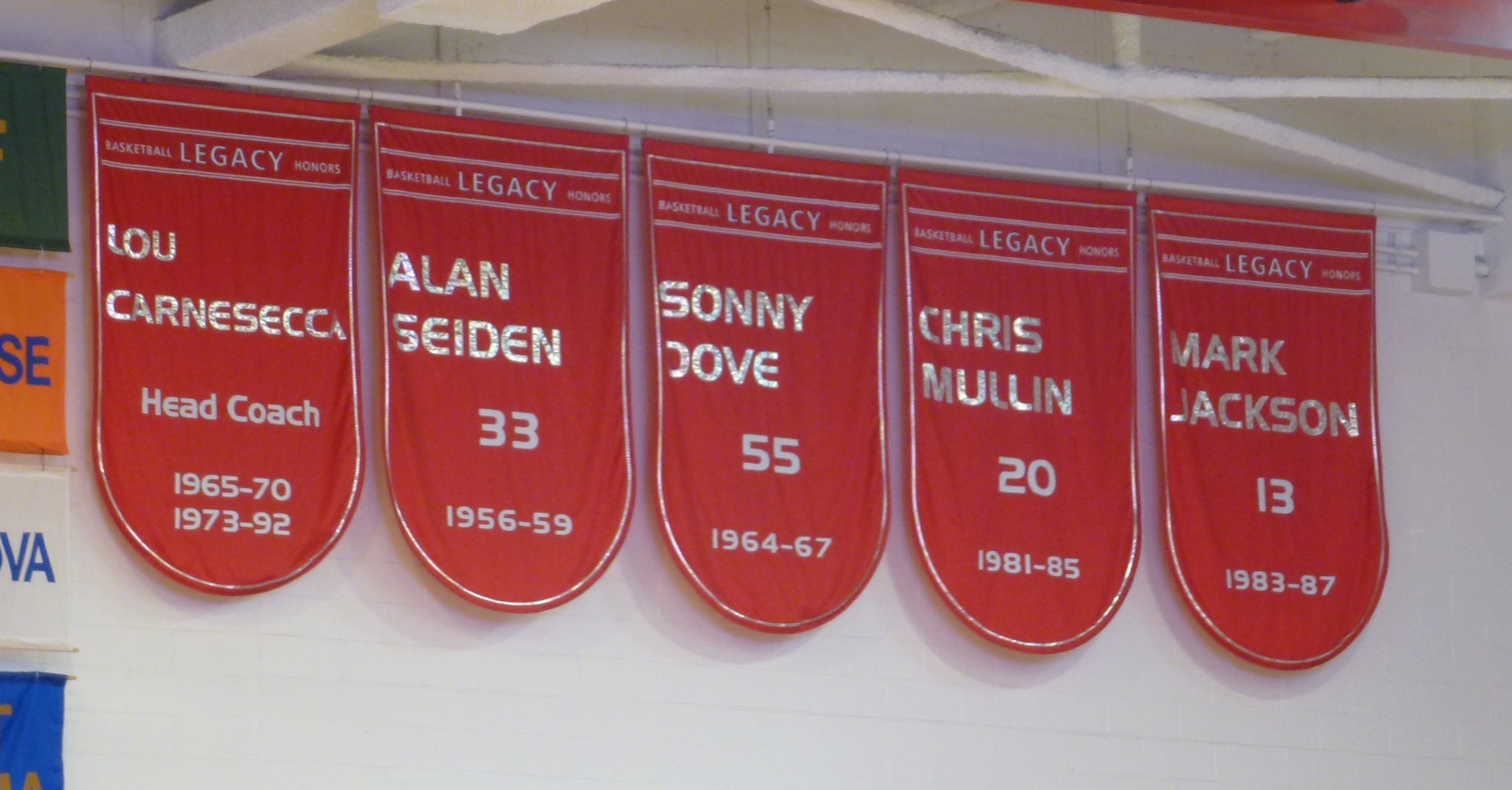 Retired numbers of notable St. John's basketball players and head coach, hanging on the wall of Carnesecca Arena on the campus of St. John's in Queens NY.